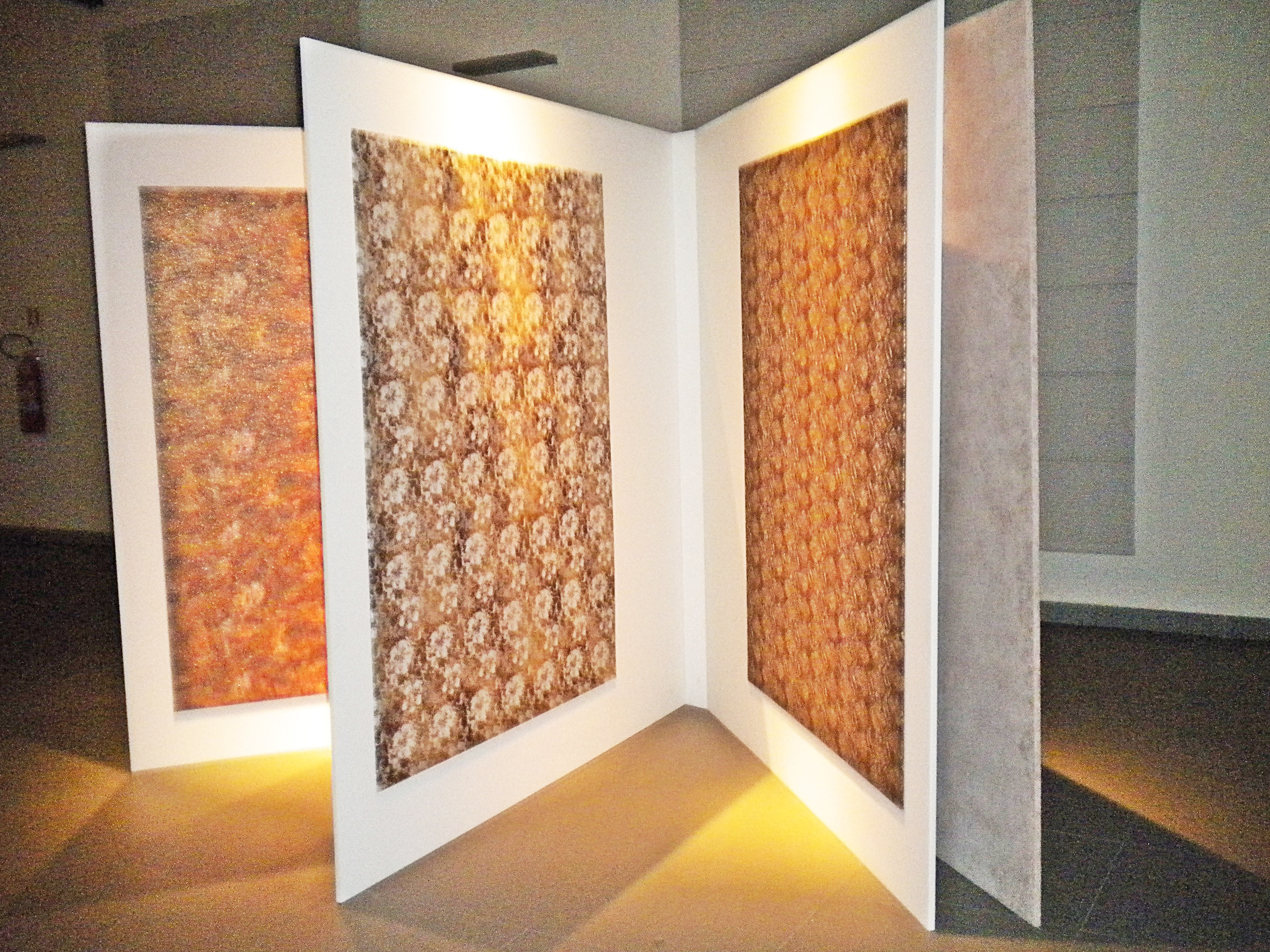 panels of fabrics